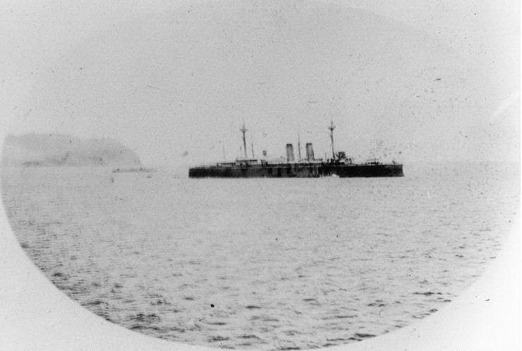 Spanish Navy armored cruiser Almirante Oquendo at SÃ£o Vicente sometime between en:19 April en:1898 and en:29 April en:1898